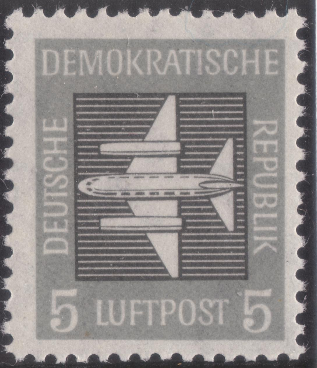 Air mail stamps Graphic designer: Vogenauer Ausgabepreis: 5 Pf First Day of Issue / Erstausgabetag: 13. Dezember 1957 Michel-Katalog-Nr: DDR 609